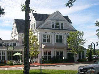 The Medical Service Center, located in The Village Green of The Pinehills in Plymouth, Massachusetts. The building contains several medical offices, and a branch of the Jordan Hospital Rehabilitation Center.